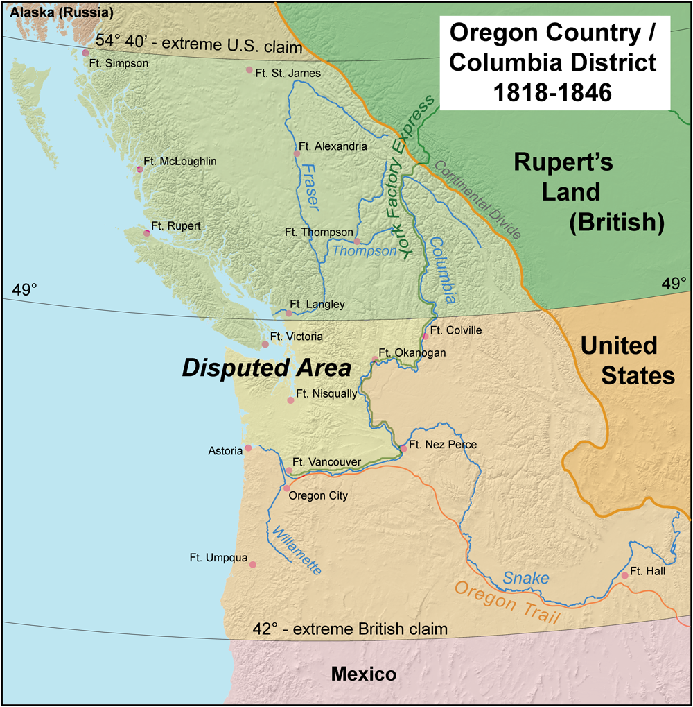 Oregon Country and the border dispute between the U.S. and Britain, 1818-1846.